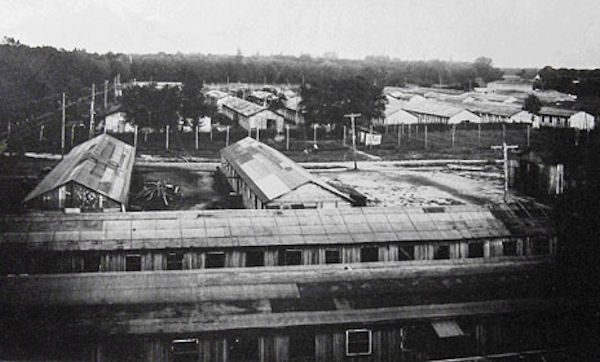 Romorantin Aerodrome, abandoned Buildings